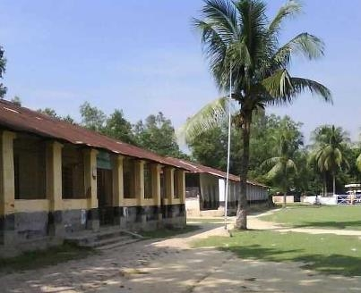 View of Dupchanchia Model Pilot High School, Bangladesh